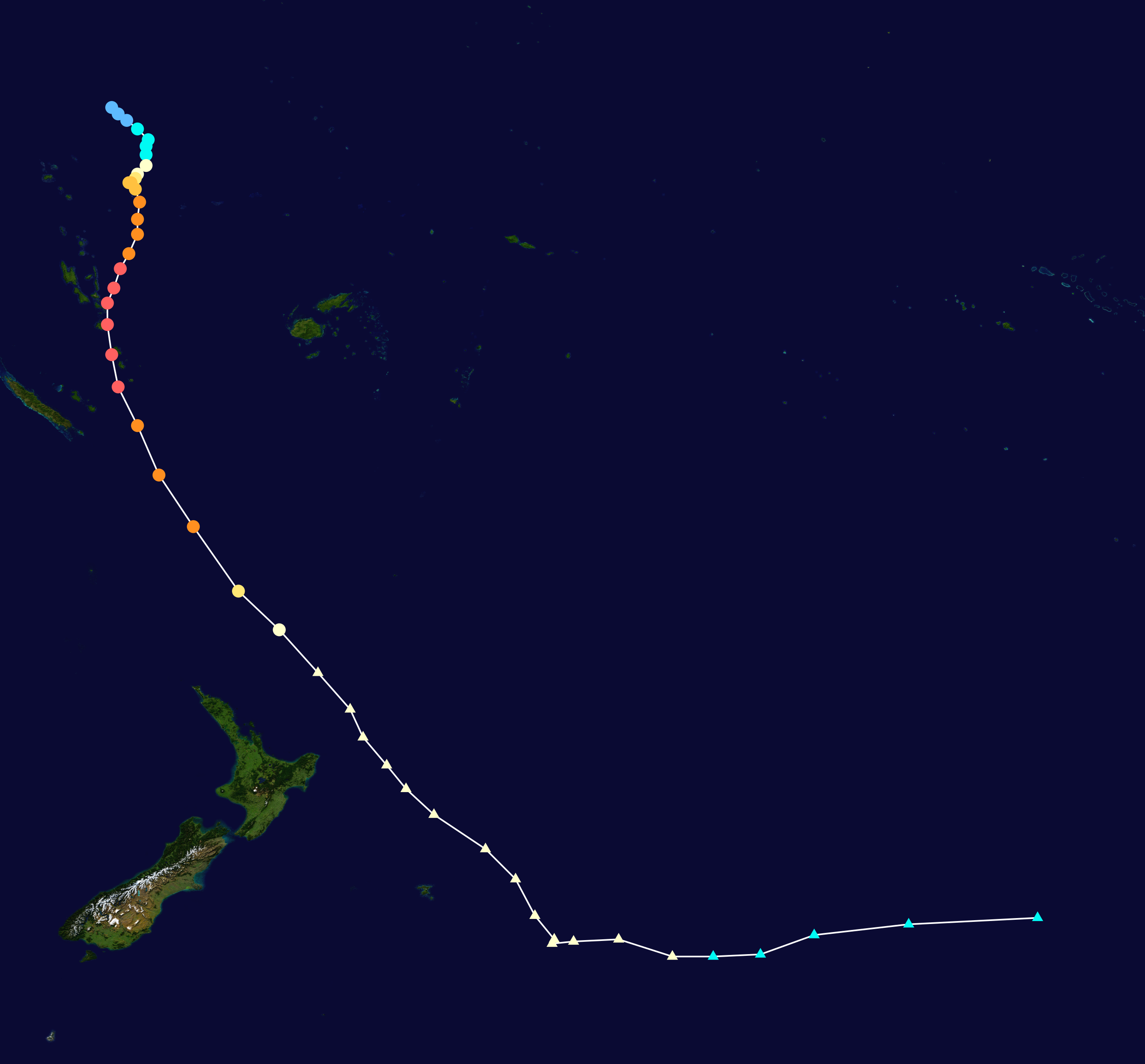 Track map of Severe Tropical Cyclone Pam of the 2014-15 South Pacific cyclone season. The points show the location of the storm at 6-hour intervals. The colour represents the storm's maximum sustained wind speeds as classified in the Saffir–Simpson scale (see below), and the shape of the data points represent the nature of the storm, according to the legend below. Saffir–Simpson scale Tropical depression≤38 mph≤62 km/h Category 3111–129 mph178–208 km/h Tropical storm39–73 mph63–118 km/h Category 4130–156 mph209–251 km/h Category 174–95 mph119–153 km/h Category 5≥157 mph≥252 km/h Category 296–110 mph154–177 km/h Unknown Storm type Tropical cyclone Subtropical cyclone Extratropical cyclone / Remnant low / Tropical disturbance / Monsoon depression